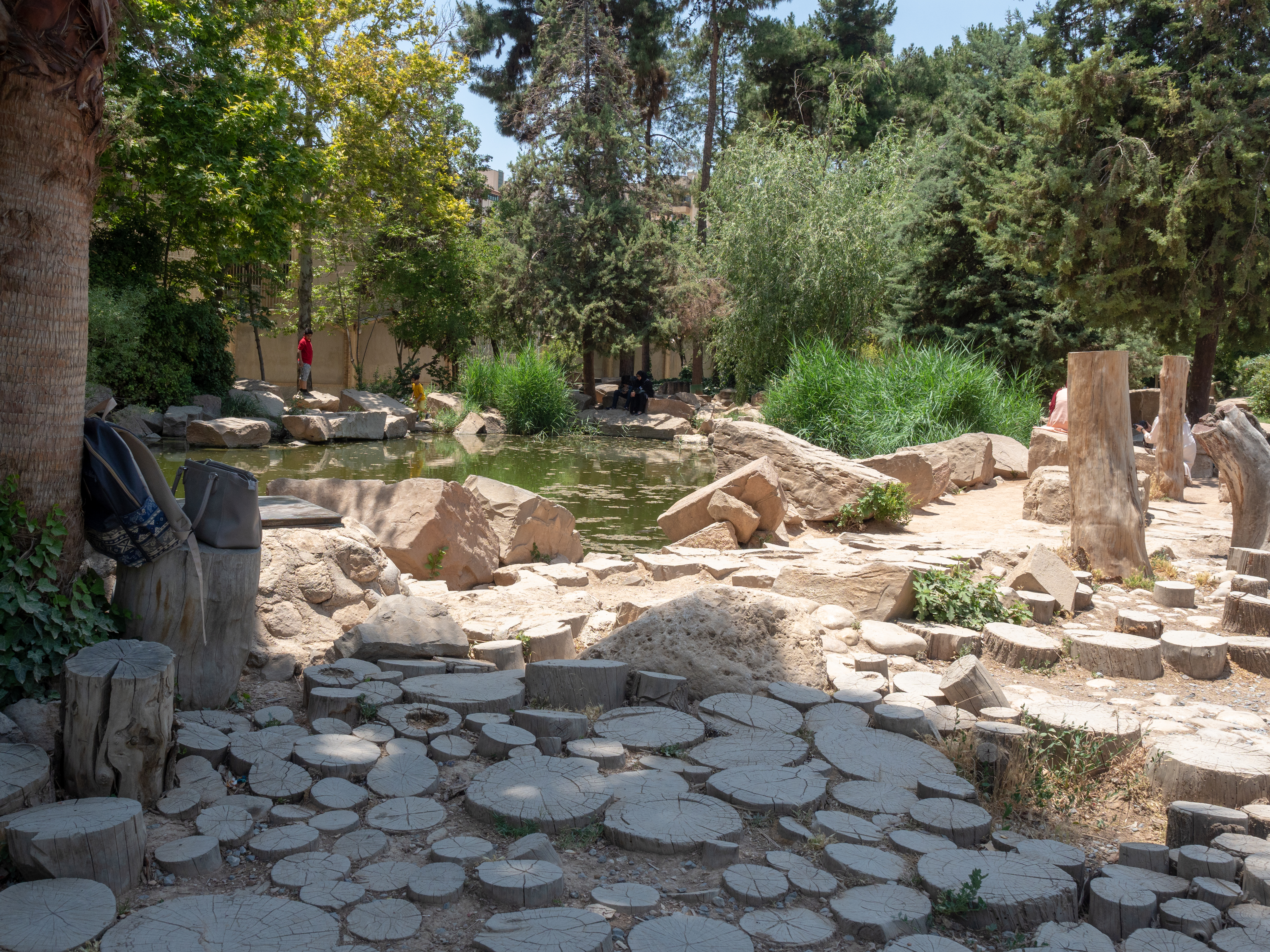 Stonepark in Eramgarden Shiraz/Iran